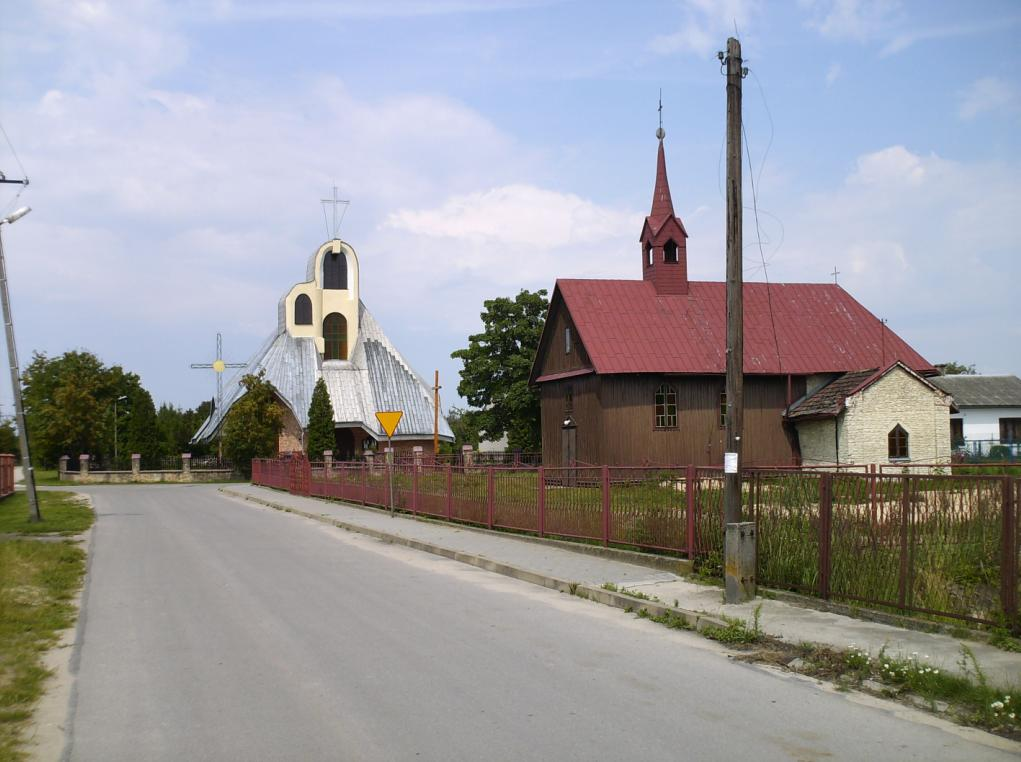 kościół